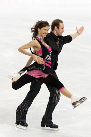 Nora Hoffmann and Maxim Zavozin at the the 2010 World Championships.